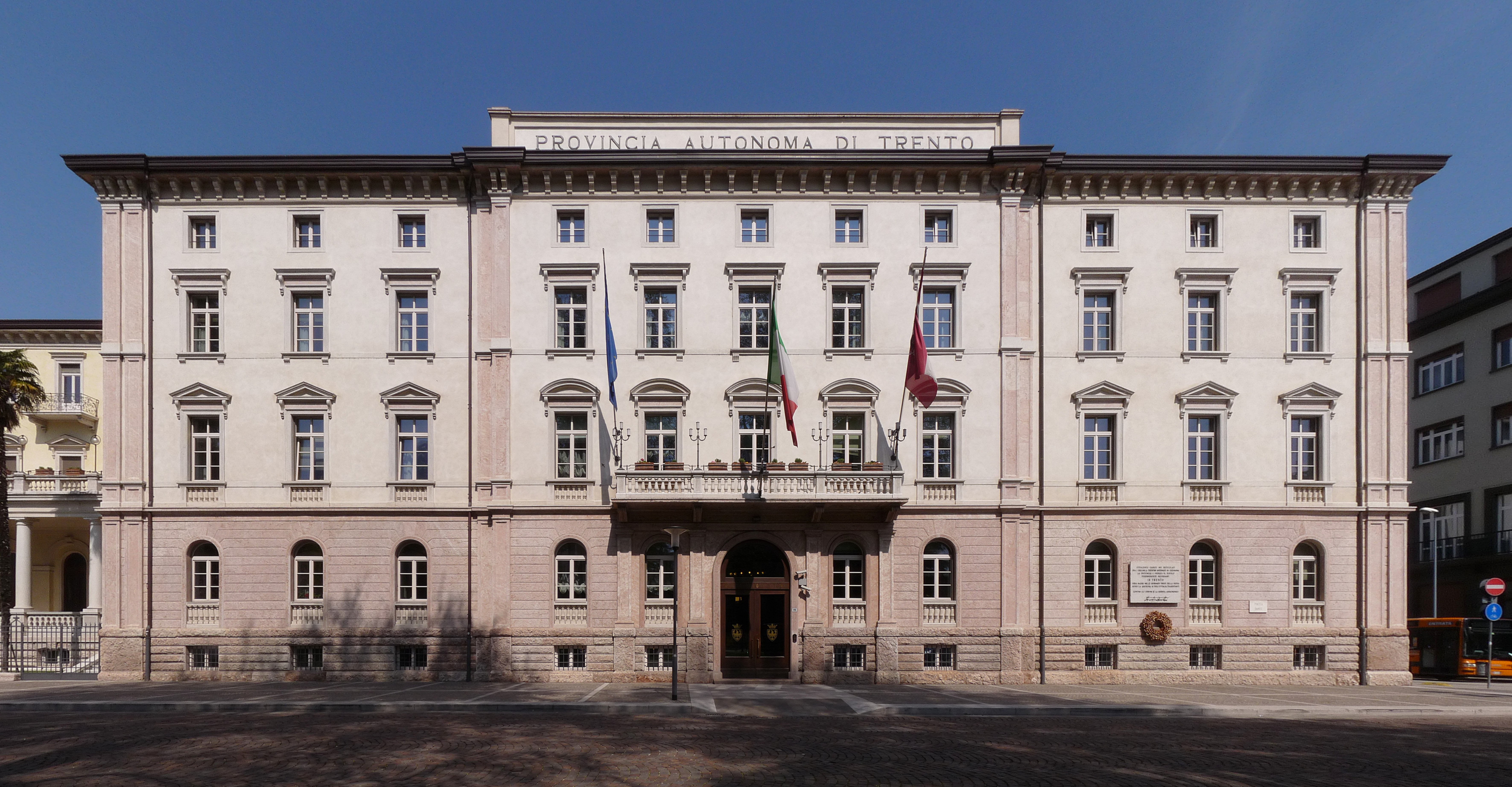 Trento (Italy): front of Palazzo della Provincia Autonoma di Trento.